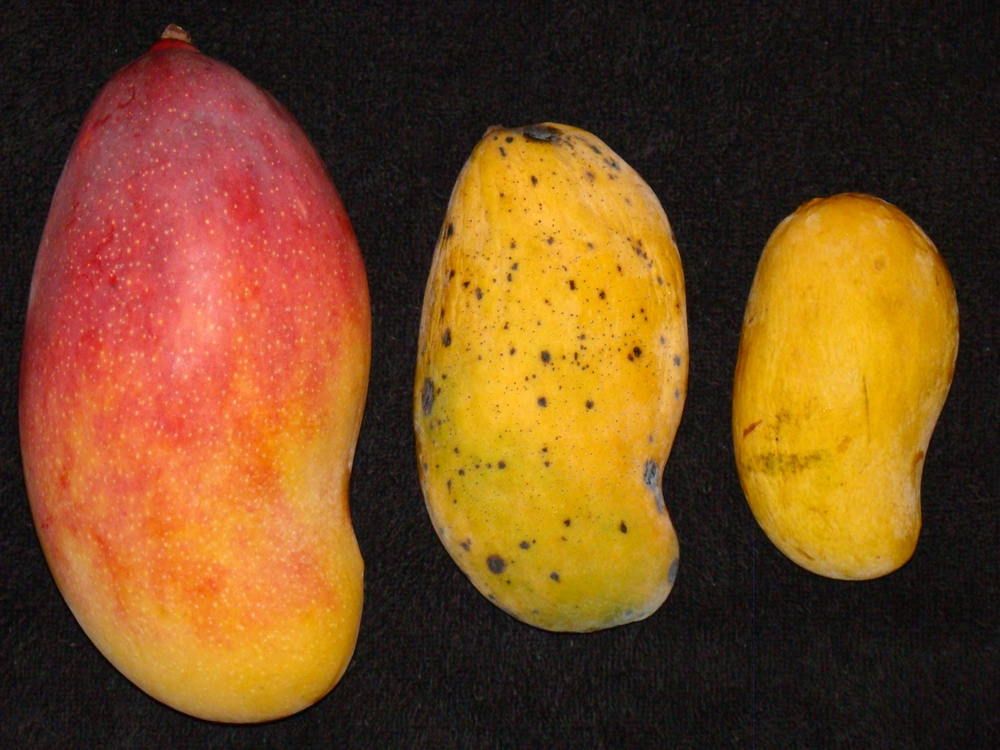 A ripe Valencia Pride mango (Mangifera indica / Anacardiaceae) from the Ghosh Grove, Rockledge, Florida is compared with a store-bought Madame Francis mango, grown in Haiti (center) and a store-bought Ataulfo mango (right), grown in Mexico.